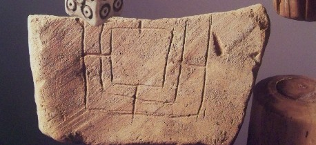 A game base (for Nine Men's Morris) belonging to the Byzantine period, found in the excavations carried out at Yenikapı (Fatih, İstanbul)